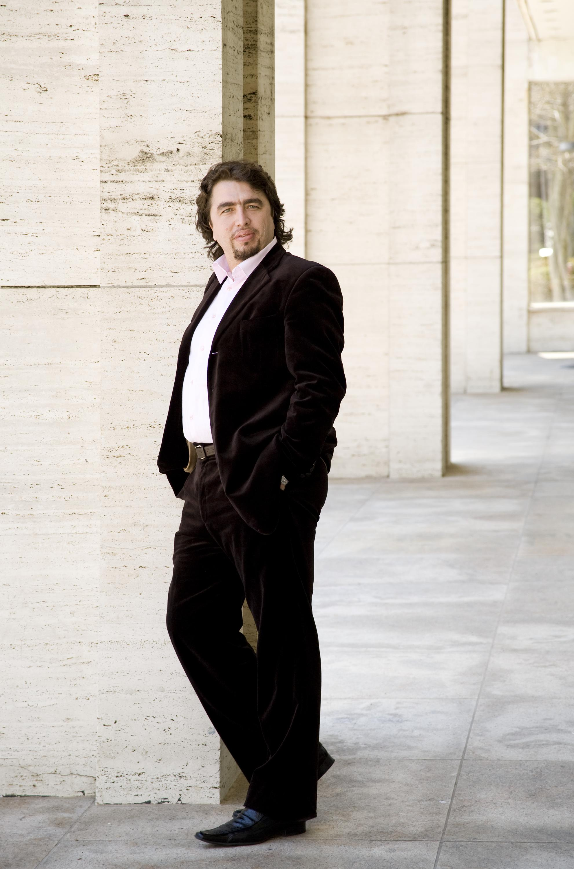 Burak Bilgili (born 10 October 1974), Turkish bass-baritone